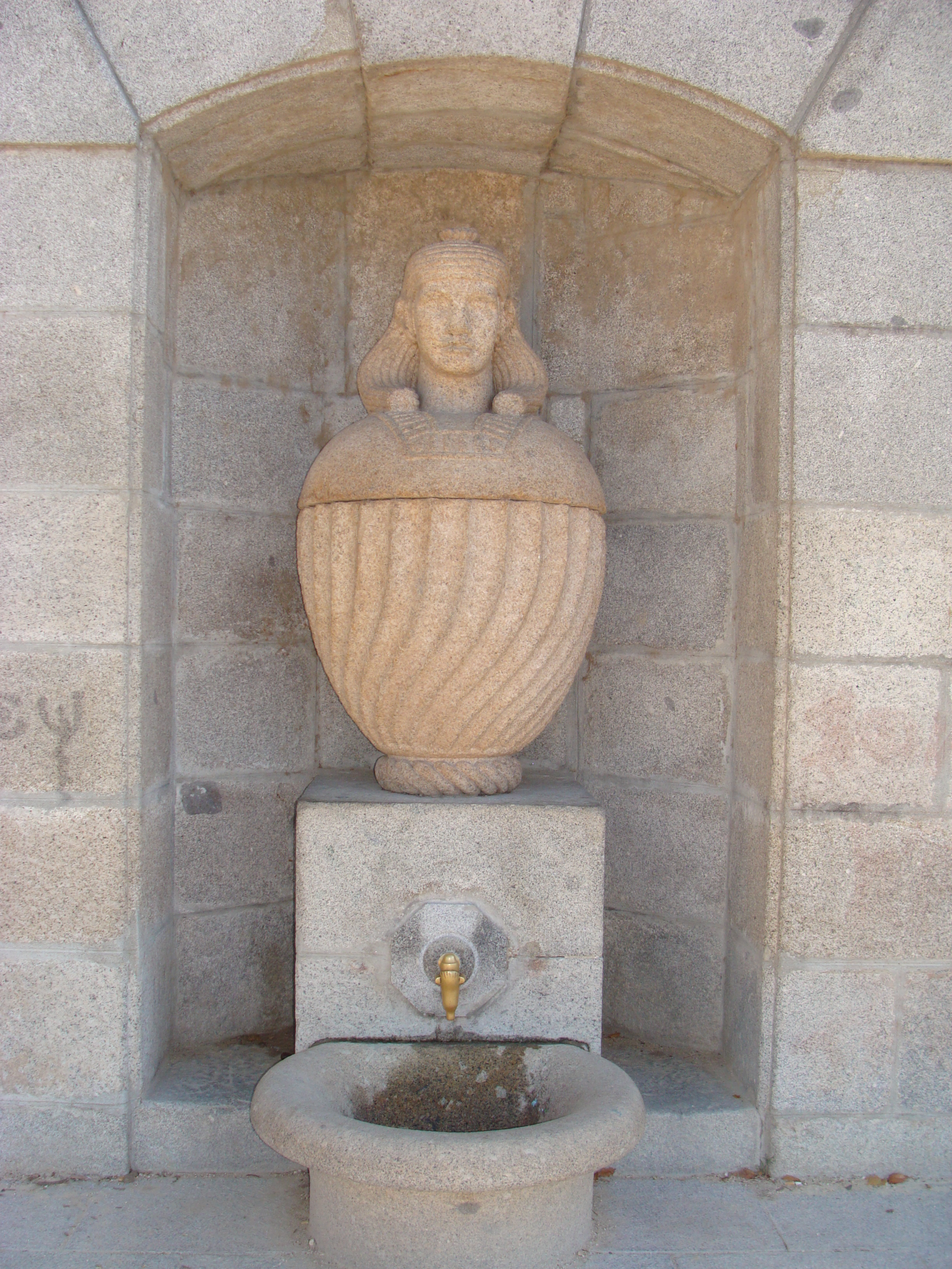 Egyptian fountain, in Parque del Buen Retiro, in Madrid